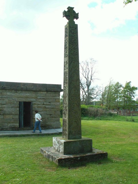 Cross in St Mary's parish churchyard, Wreay, Cumbria, seen from the east, with the mausoleum beyond. The cross is a monument to John and Isabella Losh and is based on the Bewcastle Cross. The mausoleum is that of Katharine Losh.